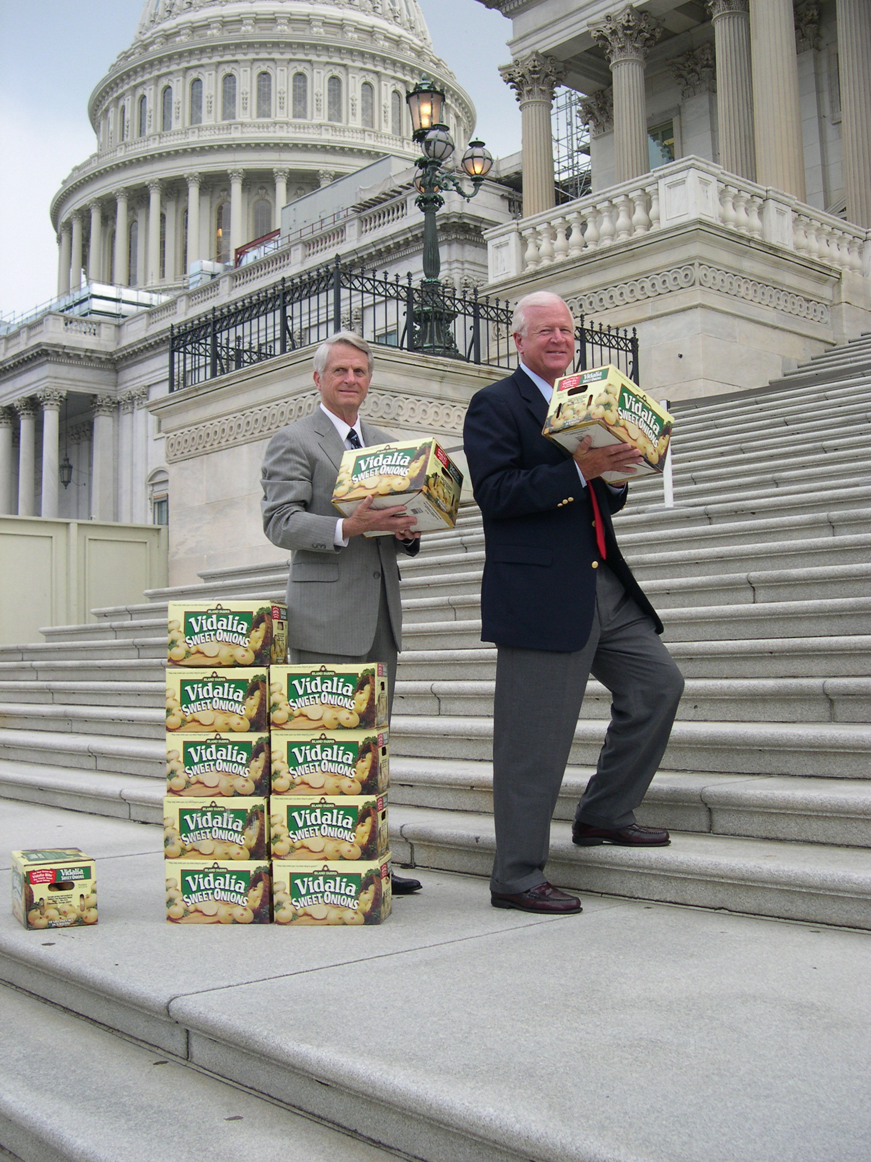 Senator Miller and Senator Chambliss deliver Vidalia onions to their Senate colleagues.